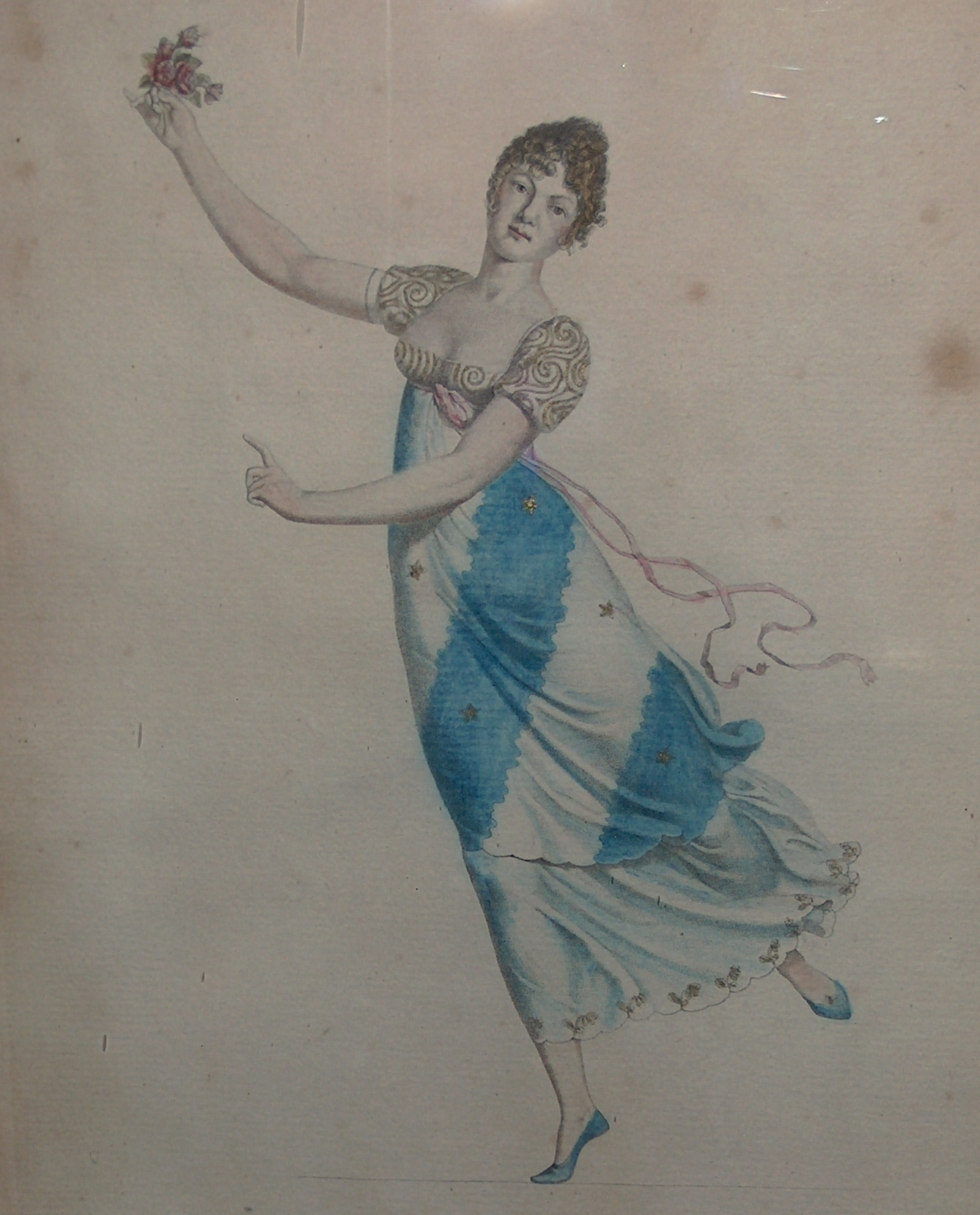 Danish dancer Margrethe Schall